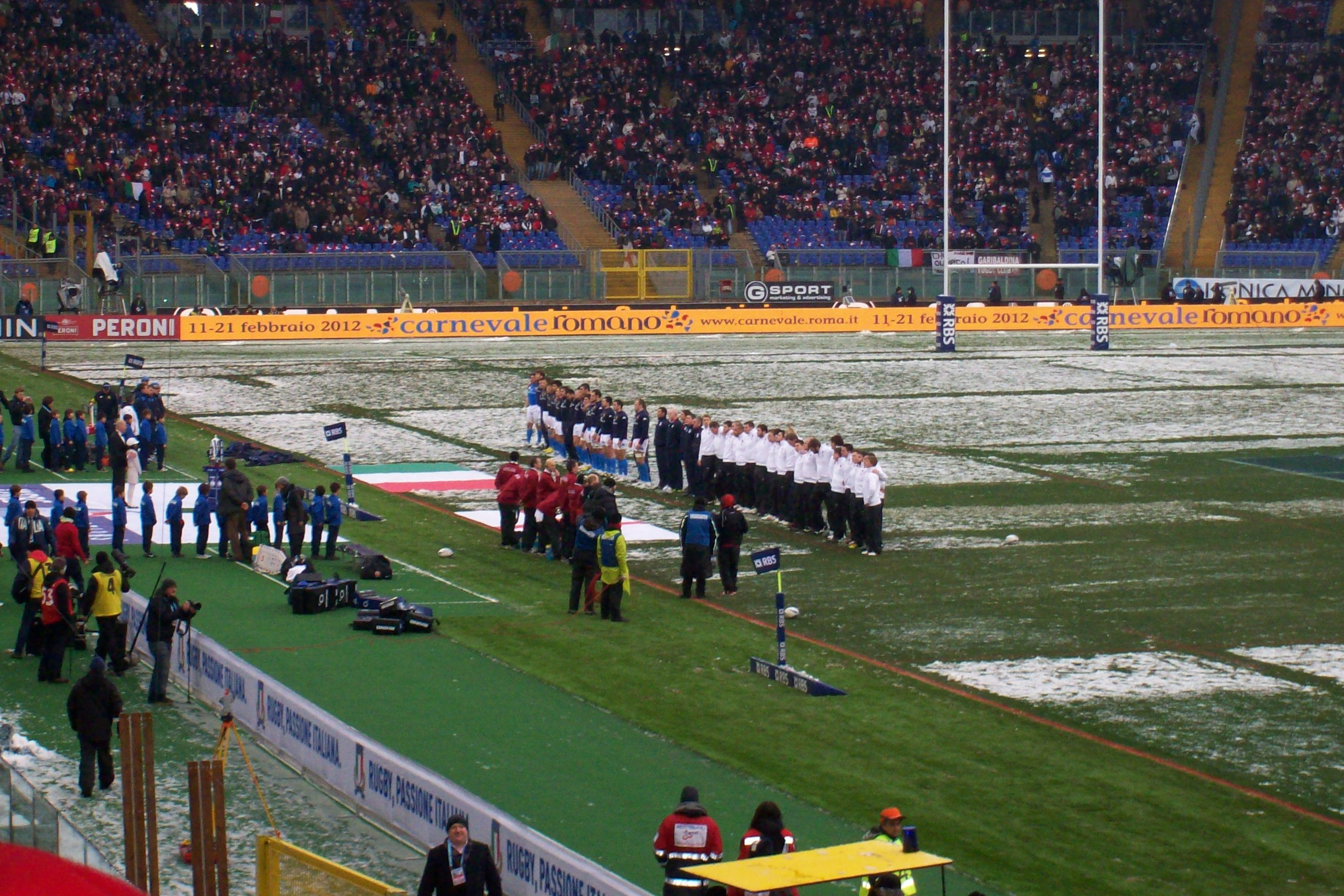 Italy and England lineups before the 2012 Six Nations match in Rome